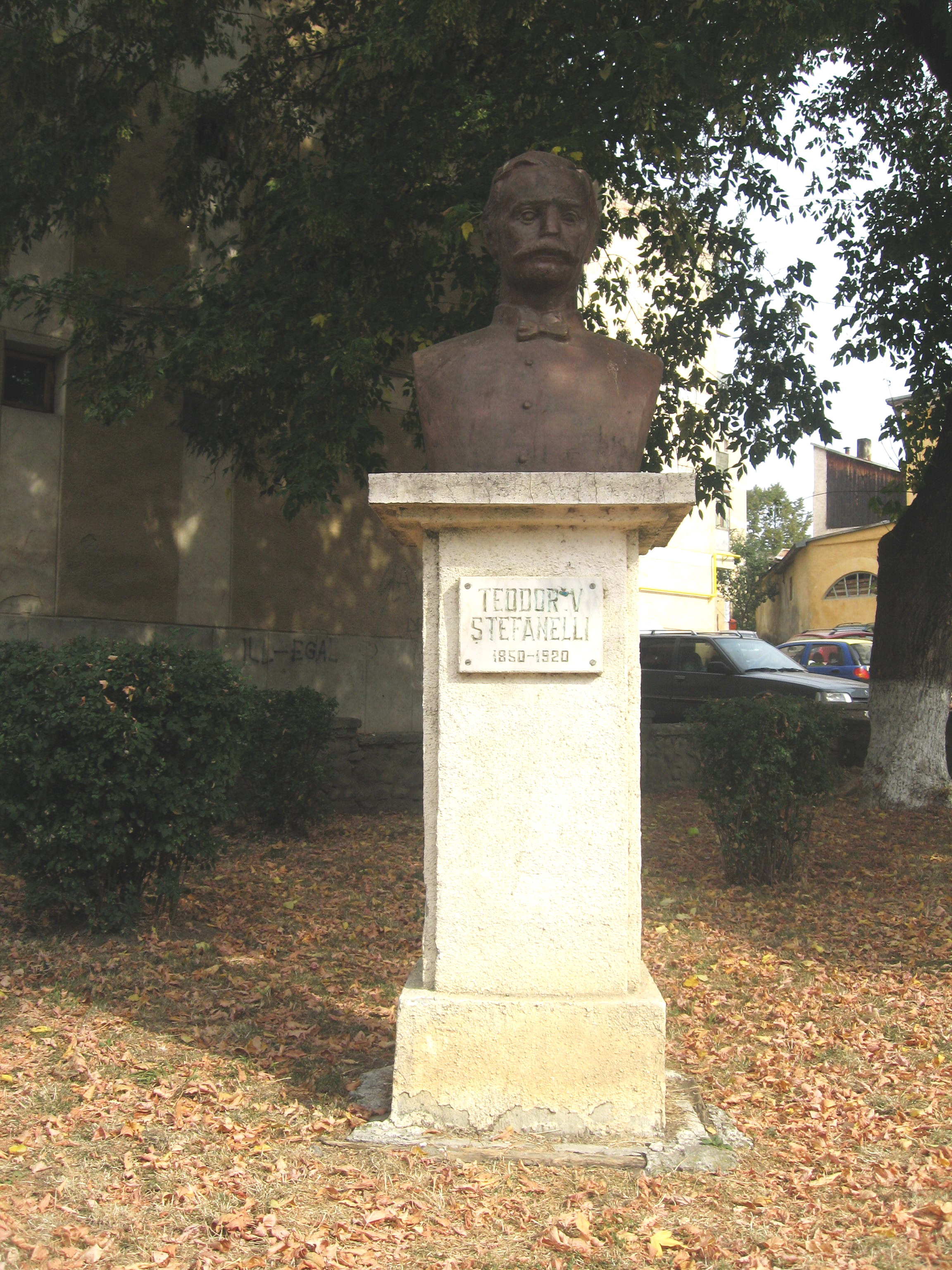 Teodor V. Ştefanelli